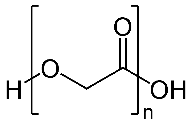 Chemical structure of polyglycolic acid (PGA)